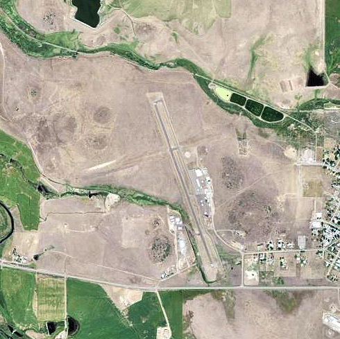 USGS digital orthophoto of Montague Airport in California